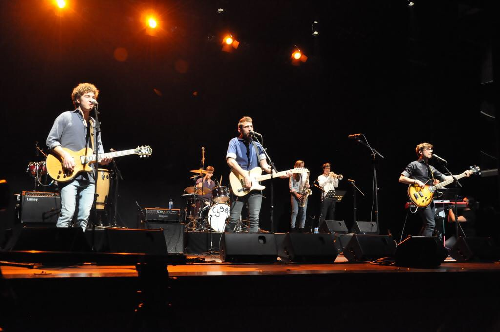 EnciSAT concert in Sant Andreu Teatre venue in Barcelona